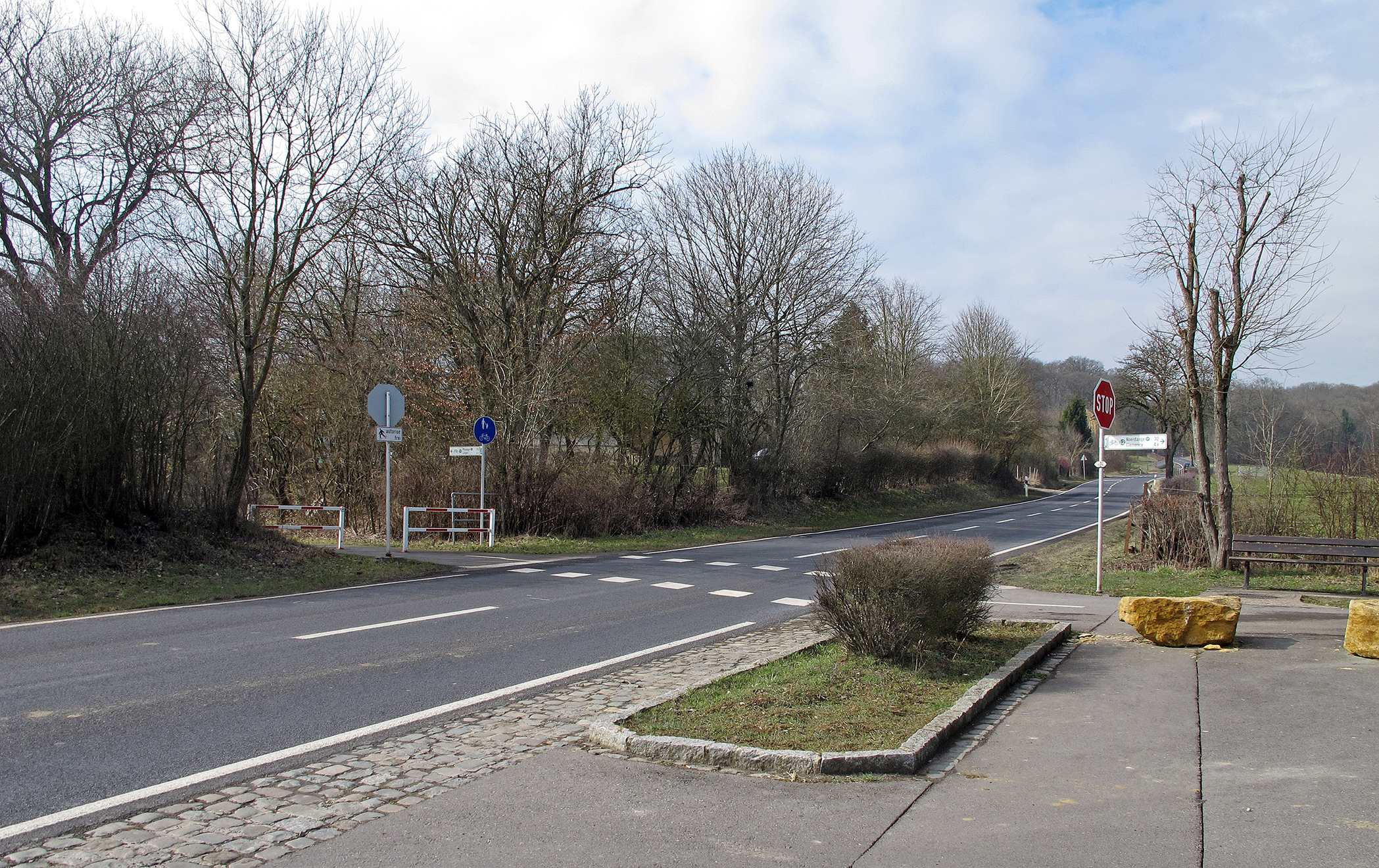 Place called Schack near Bascharage, Luxembourg